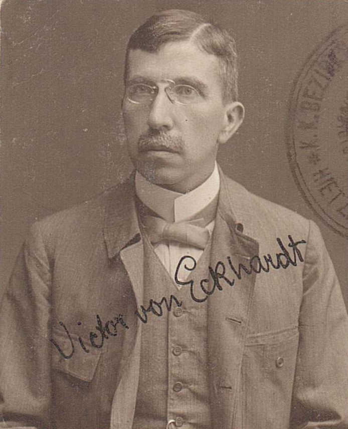 Victor mit Signatur 1915